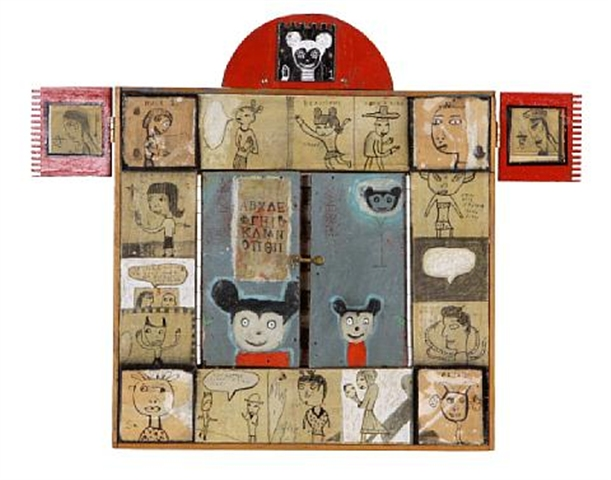 "Blue Mickey" by Michael Nakoneczny, 1999